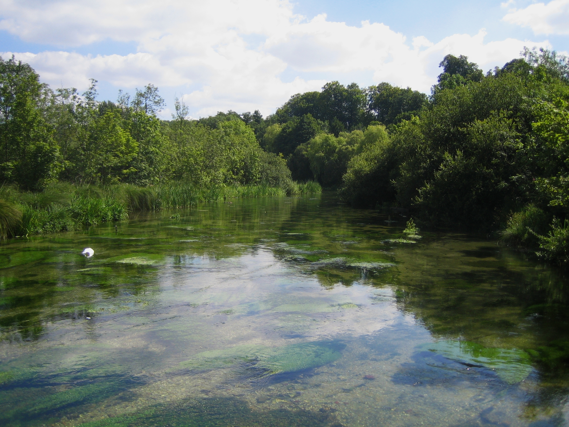 The River Itchen at Ovington in Hampshire, taken in August 2005 by Joolz.